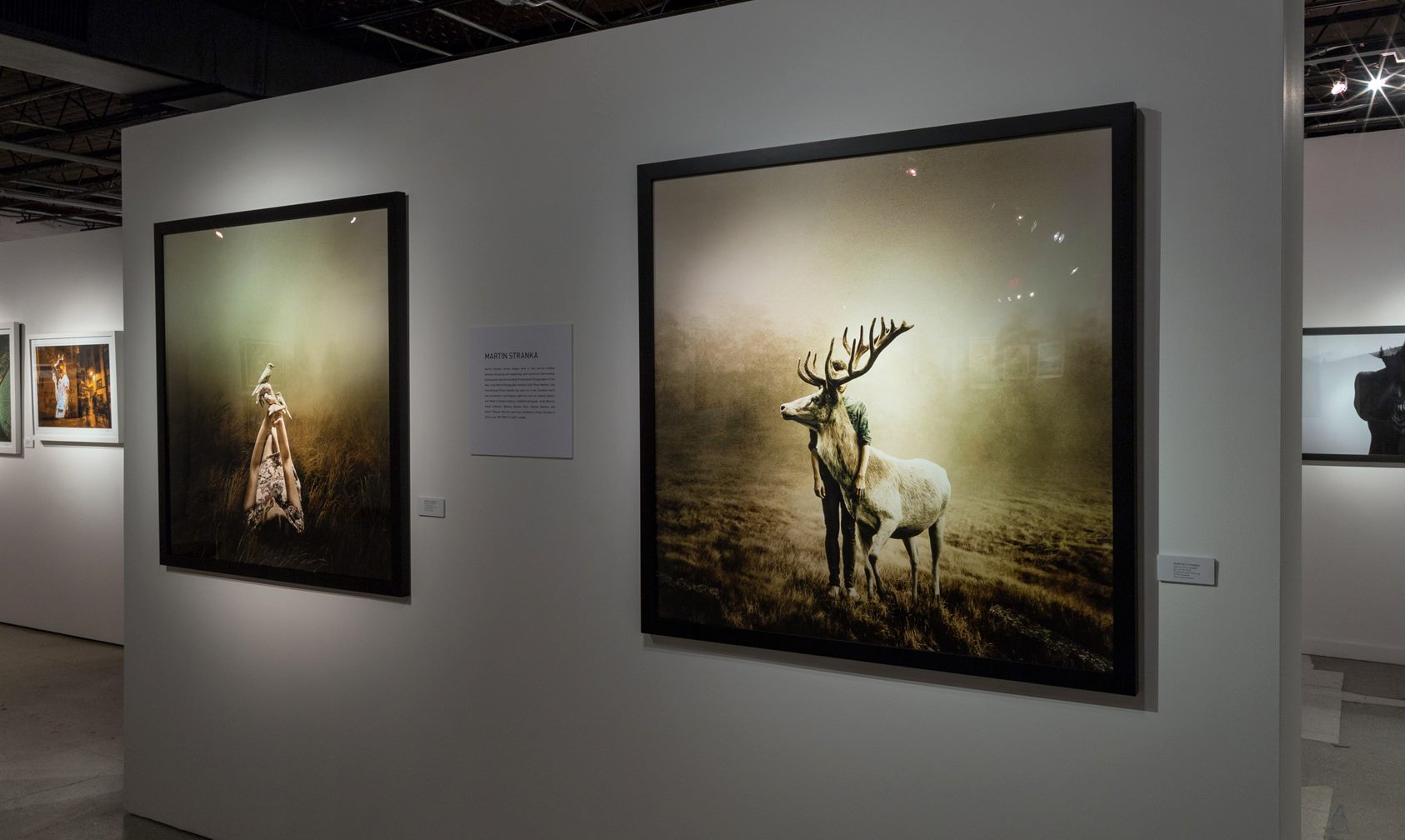 Exhibition in Orlando, Florida (USA) 2015